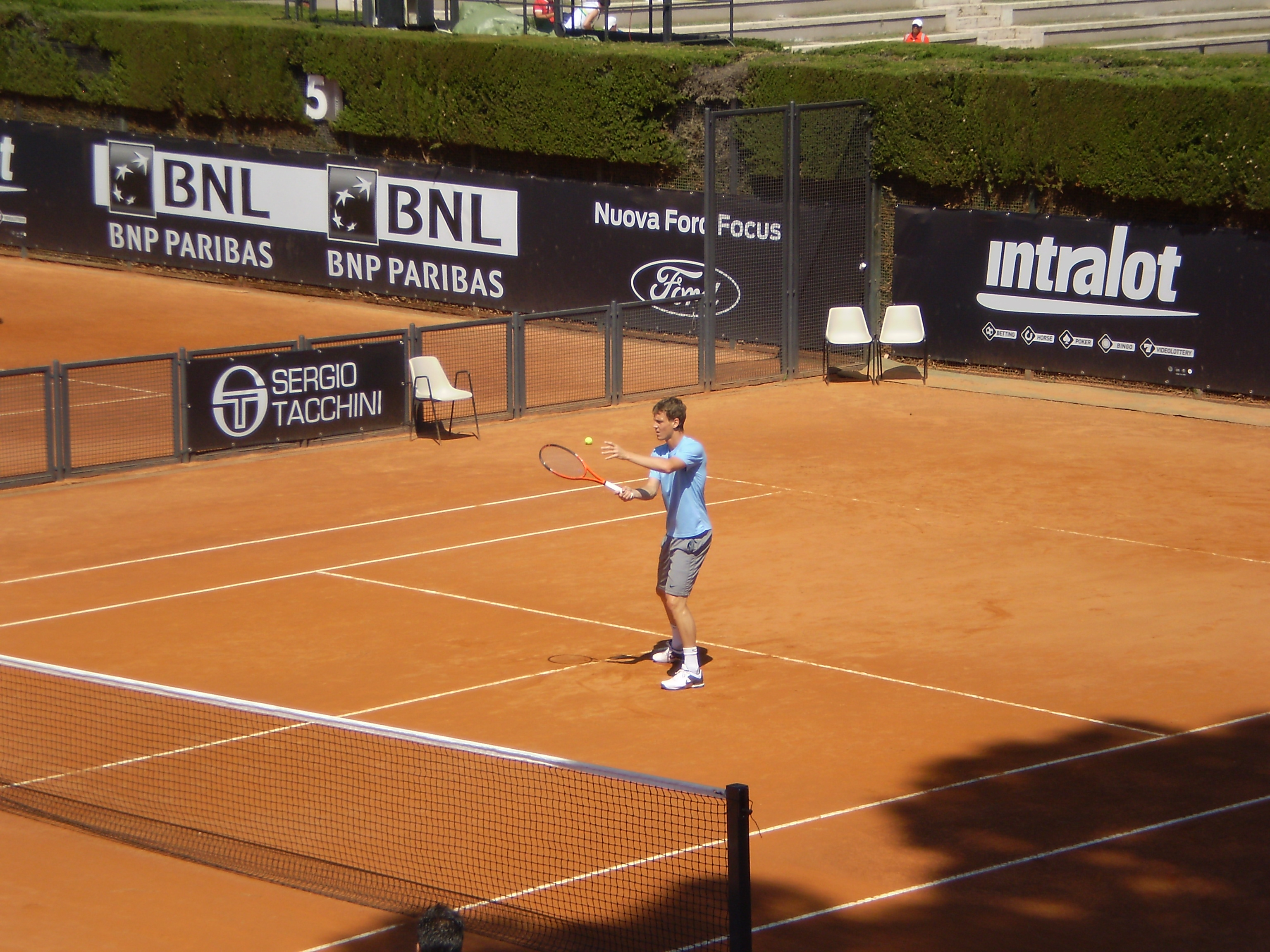 Tomáš Berdych training in Rome 2011